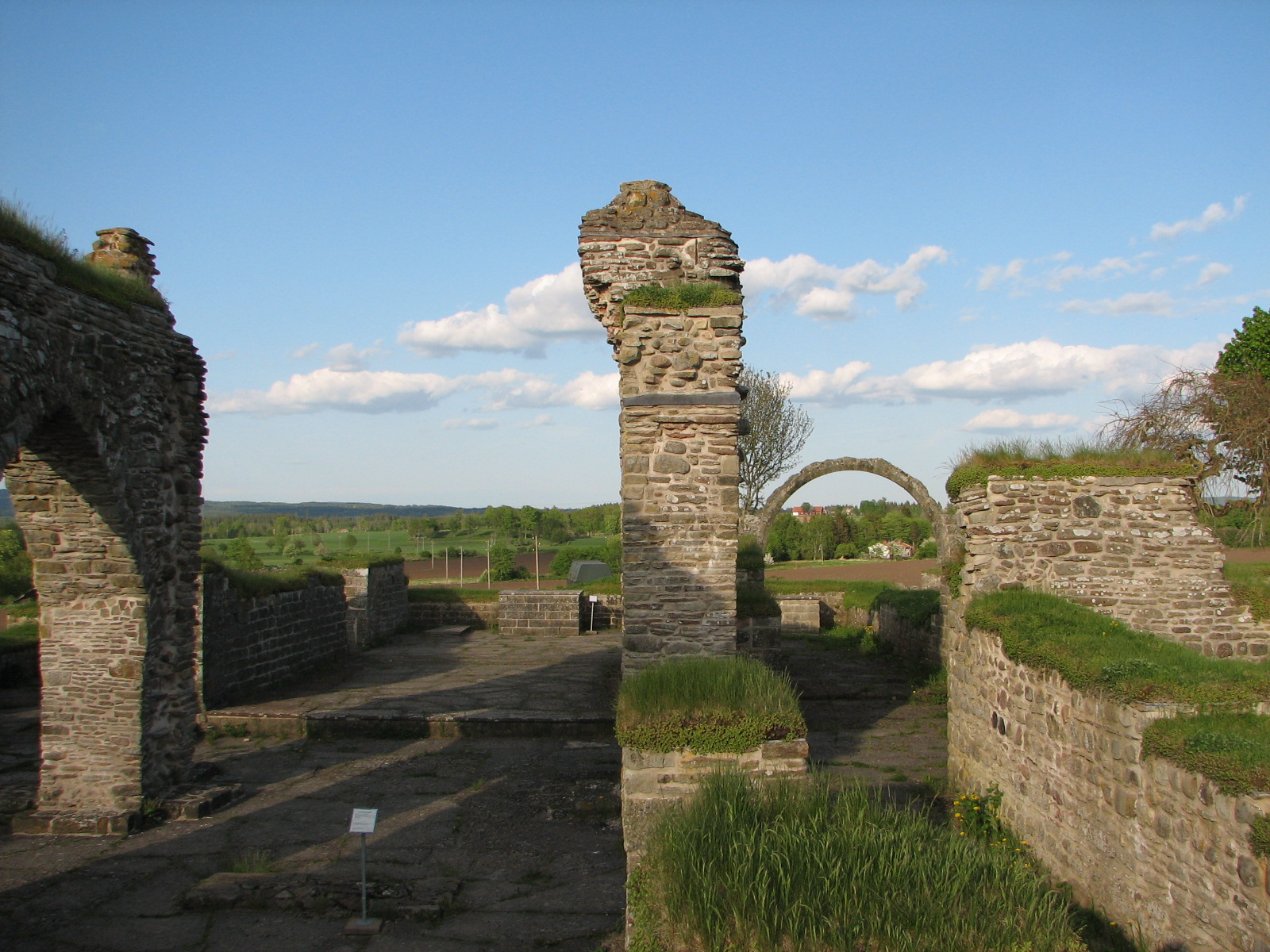 The ruins of Gudhem monastery